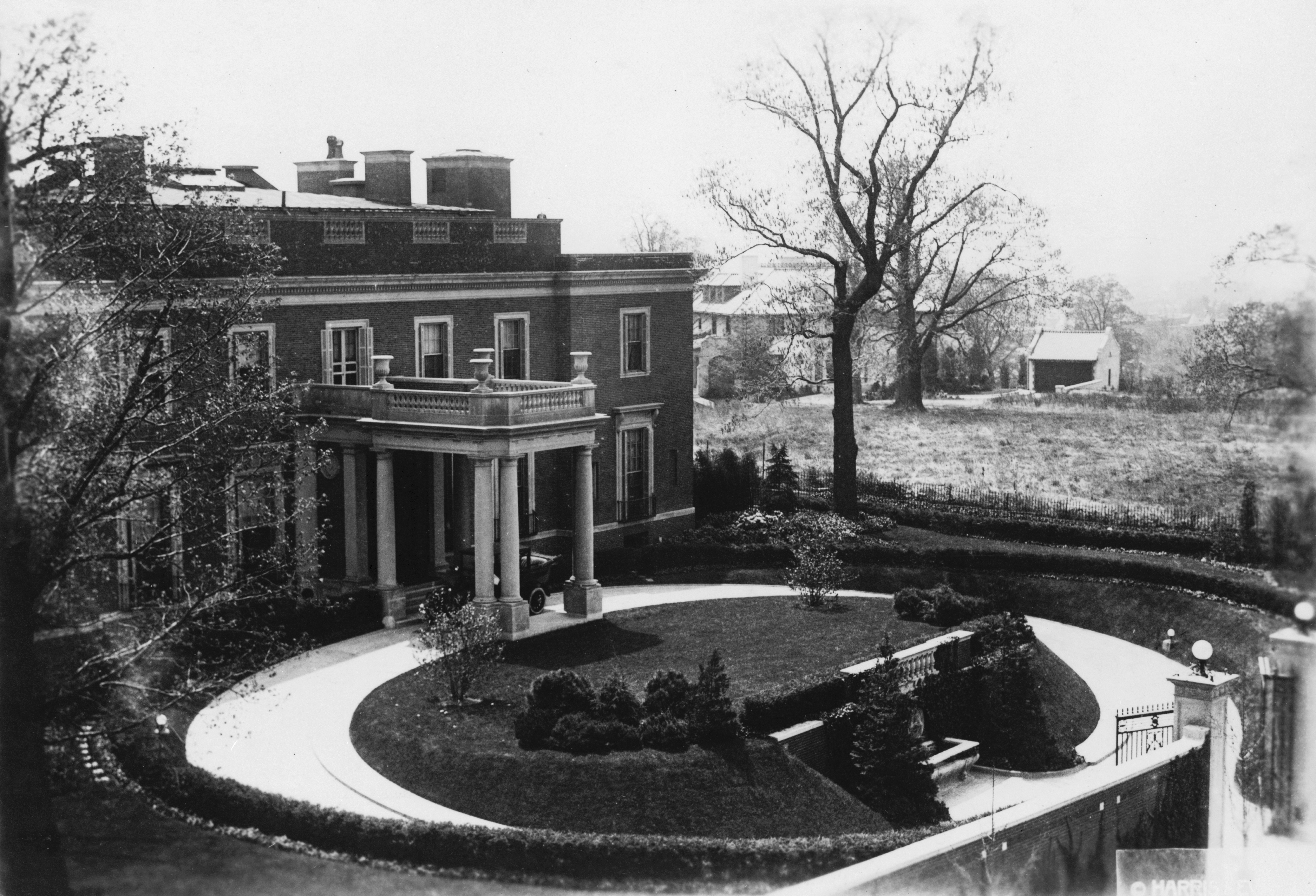 White-Meyer House on the NRHP since January 20, 1988. At 1624 Crescent Pl., NW, in the Adams Morgan neighborhood of Washington, D.C.